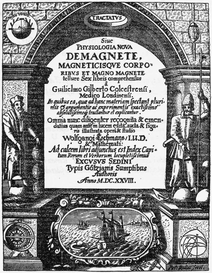 Title page of William Gilbert's De Magnete. In the bottom center panel is a Terrella, floating. On the left is a philosopher showing that a lodestone (magnet) capped with iron can lift more than one without. On the right is a mariner representing the practical importance of magnetism. Around the corners are illustrations from the text According to Physics World's William Gilbert: forgotten genius, this edition was pirated?